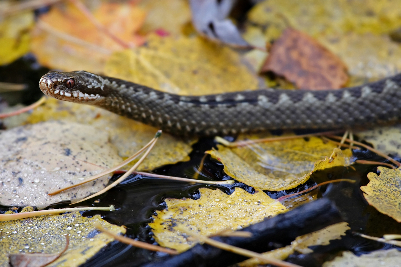 Common European Viper (Vipera berus) Dysmorodrepanis 14:37, 28 May 2008 (UTC)